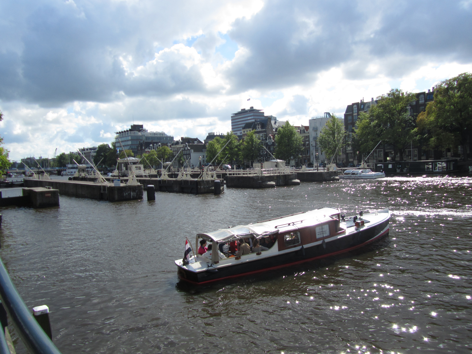 The Amstelsluizen sluice gates on the Amstel river in Amsterdam, near the Carré theatre.